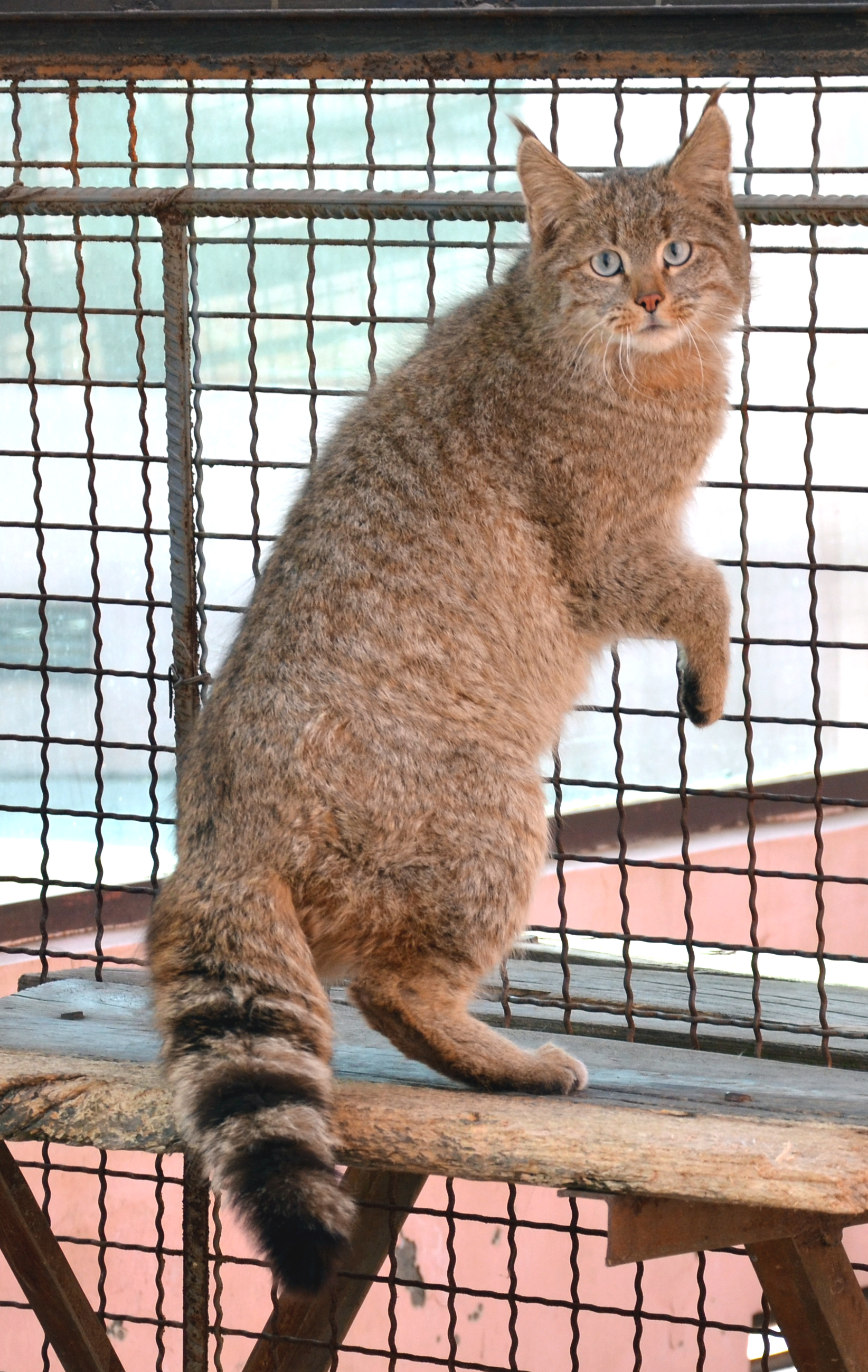 Chinese Mountain Cat (Felis Bieti) in XiNing Wild Zoo